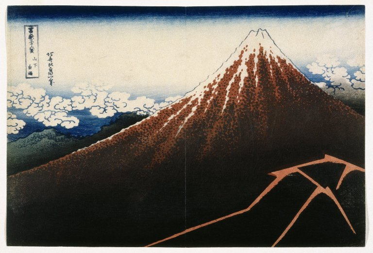 Part of the series Thirty-six Views of Mount Fuji, no. 32.